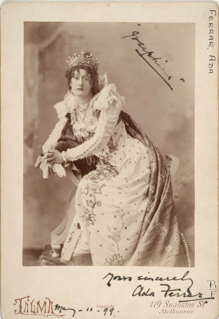 Carte de visite of Ada Ferrar as Josephine in A Royal Divorce 1899 - by Talma, 119 Swanston St., Melbourne